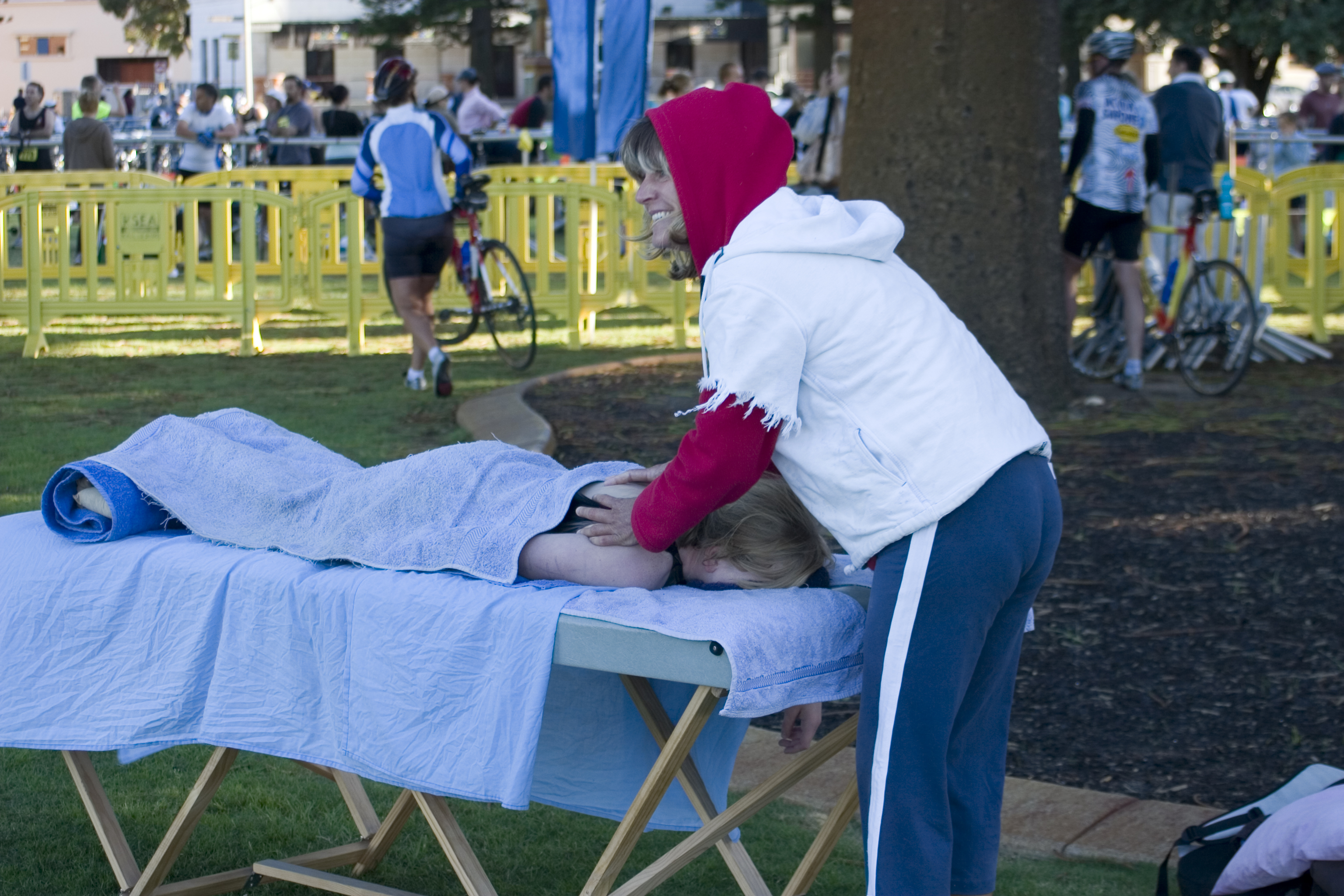 Massage therapist working at a Triathlon in Fremantle, Western Australia, Australia.